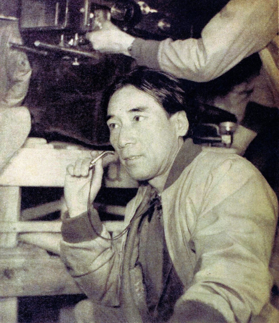 Keigo Kimura